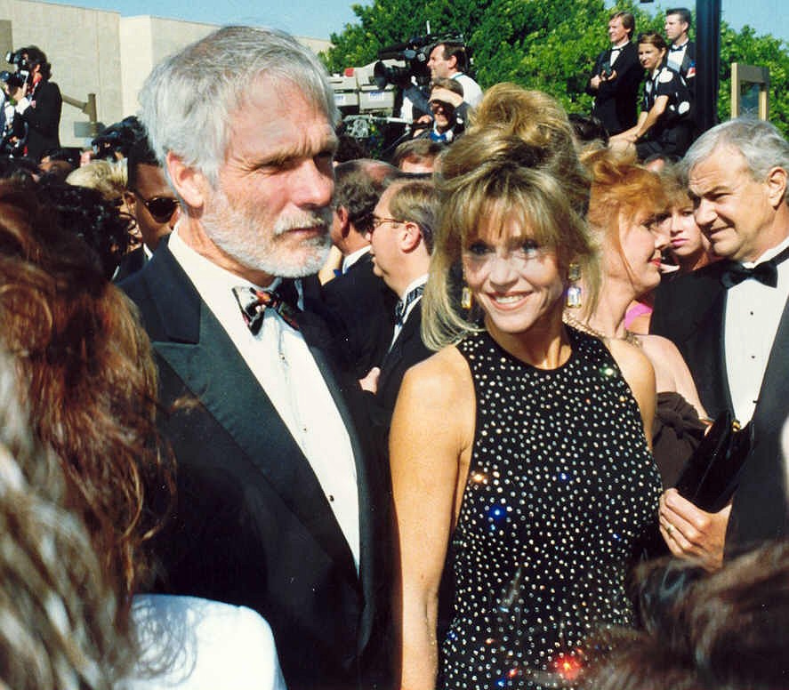 Ted Turner and Jane Fonda on the red carpet at the 1992 Emmy Awards4327